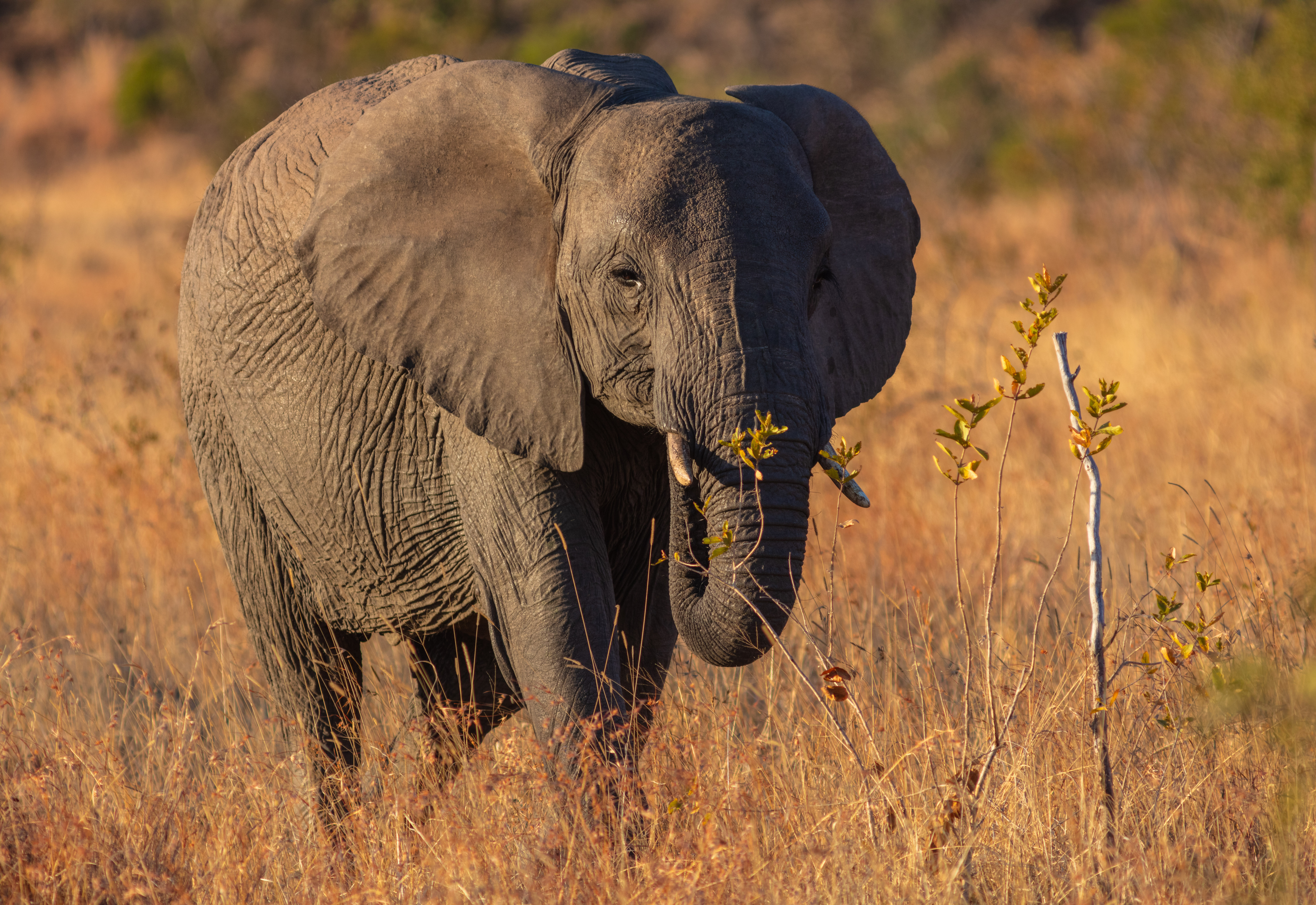 Baby African bush elephant (Loxodonta africana), Kruger National Park, South Africa.